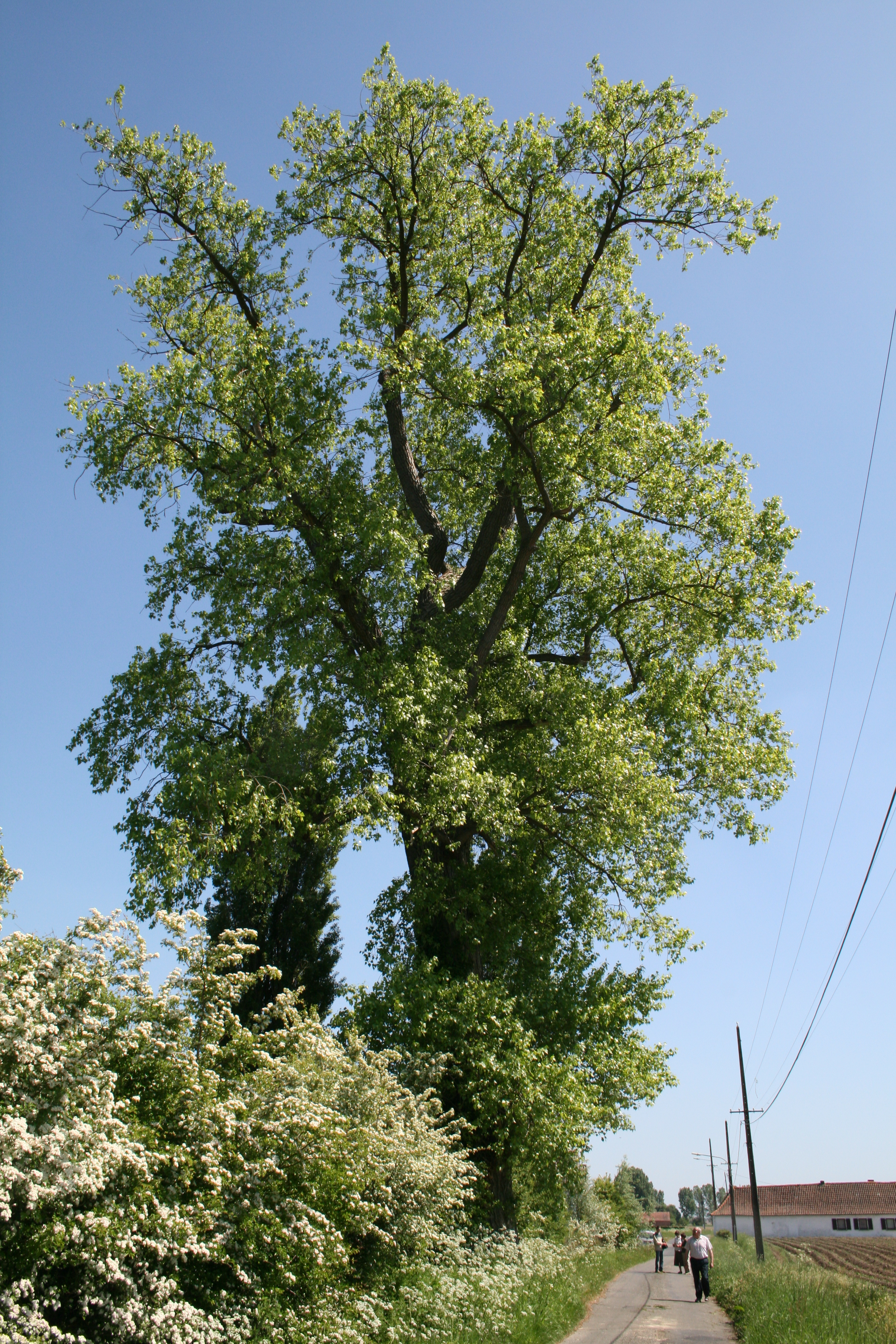 Black poplar